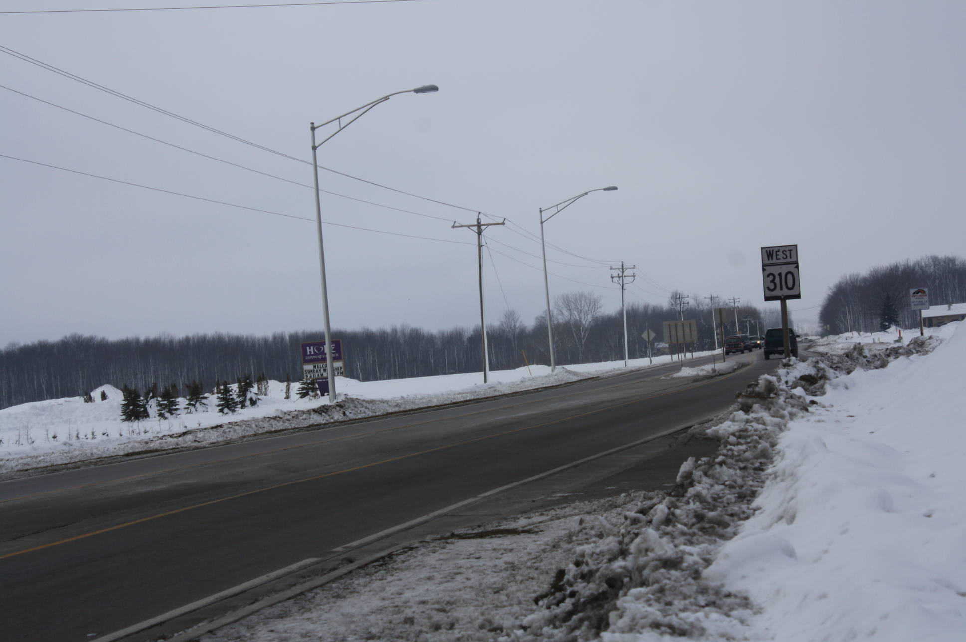 Looking west at a sign for Wisconsin Highway 310.